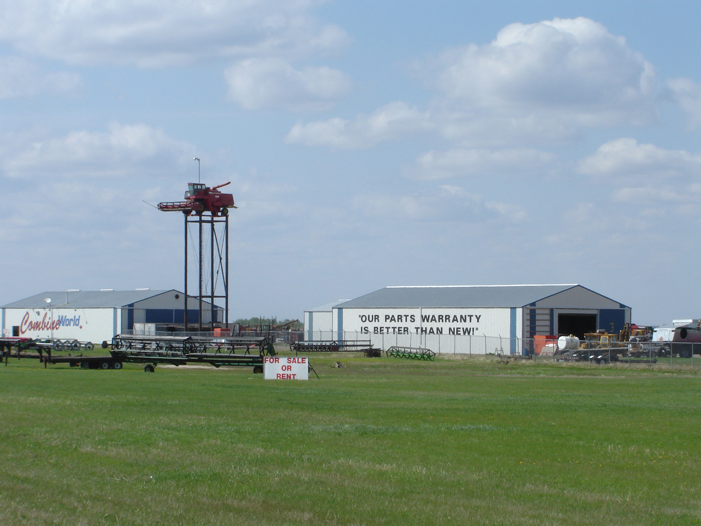 Large roadside attractions. Combine suspended on pole located at Clavet Saskatchewan Highway 16 or Yellowhead Highway